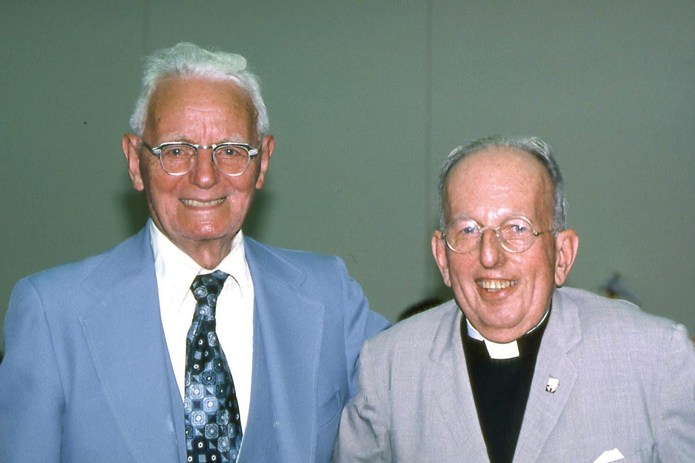 Dr. Cornelius Van Til (left) with Dr. Robert Knight Rudolph (right)